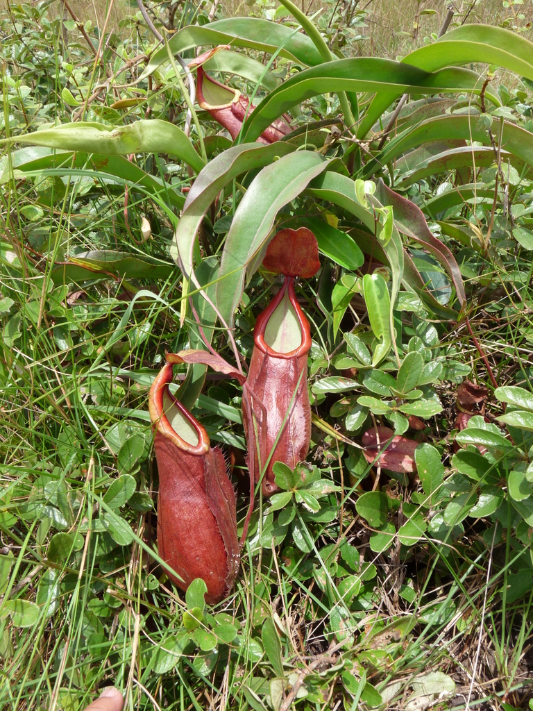 Nepenthes smilesii from Kampot, Cambodia (16 m asl)